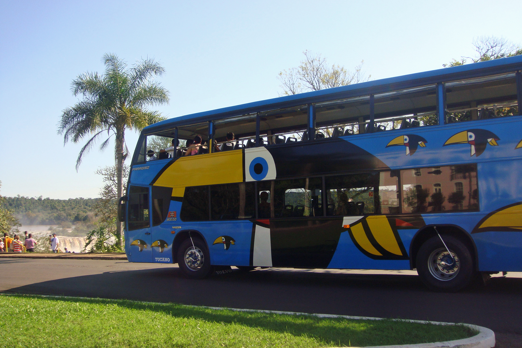 Marcopolo Paradiso 1800 DD with Volvo chassis double-decker tourism bus for internal service at Iguaçu National Park (Parque Nacional do Iguaçu), Cataratas do Iguaçu, Brazil.